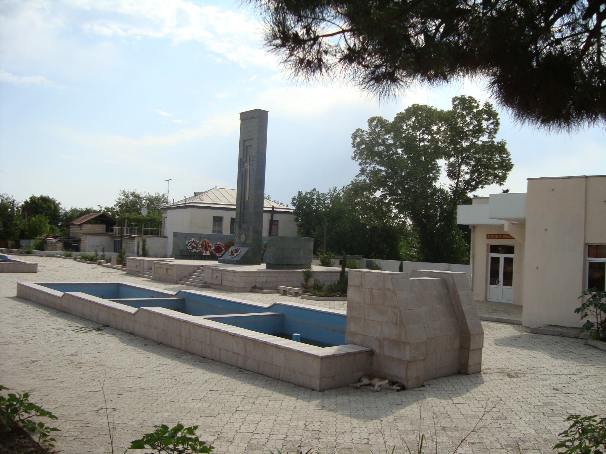 A monument in the park. Martakert, Republic of Mountainous Karabakh (Artsakh).